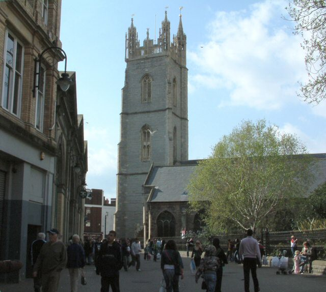 St. John's Church Trinity Street, Cardiff with St. John's church at the end and the entrance to Cardiff Market on the left.